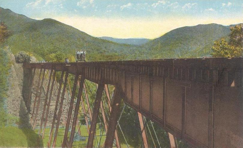 Frankenstein Trestle, White Mountains, New Hampshire, USA. Built in 1875 by the Portland and Ogdensburg Railway and later part of the Mountain Division of the Maine Central Railroad. It is 520 feet (158 meters) long and 85 feet (26 meters) above the ravine.